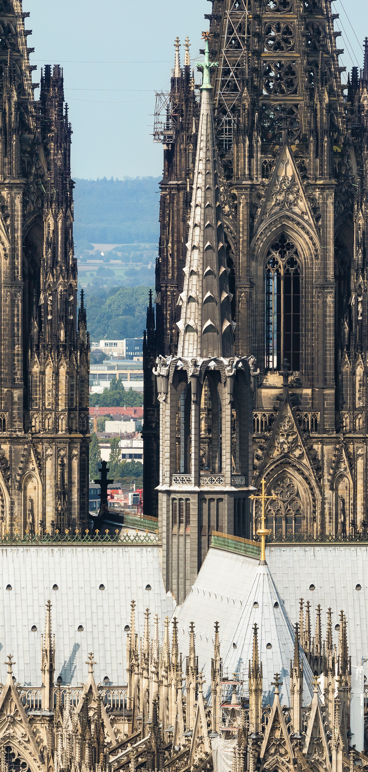 Cathedral in Cologne, Germany.